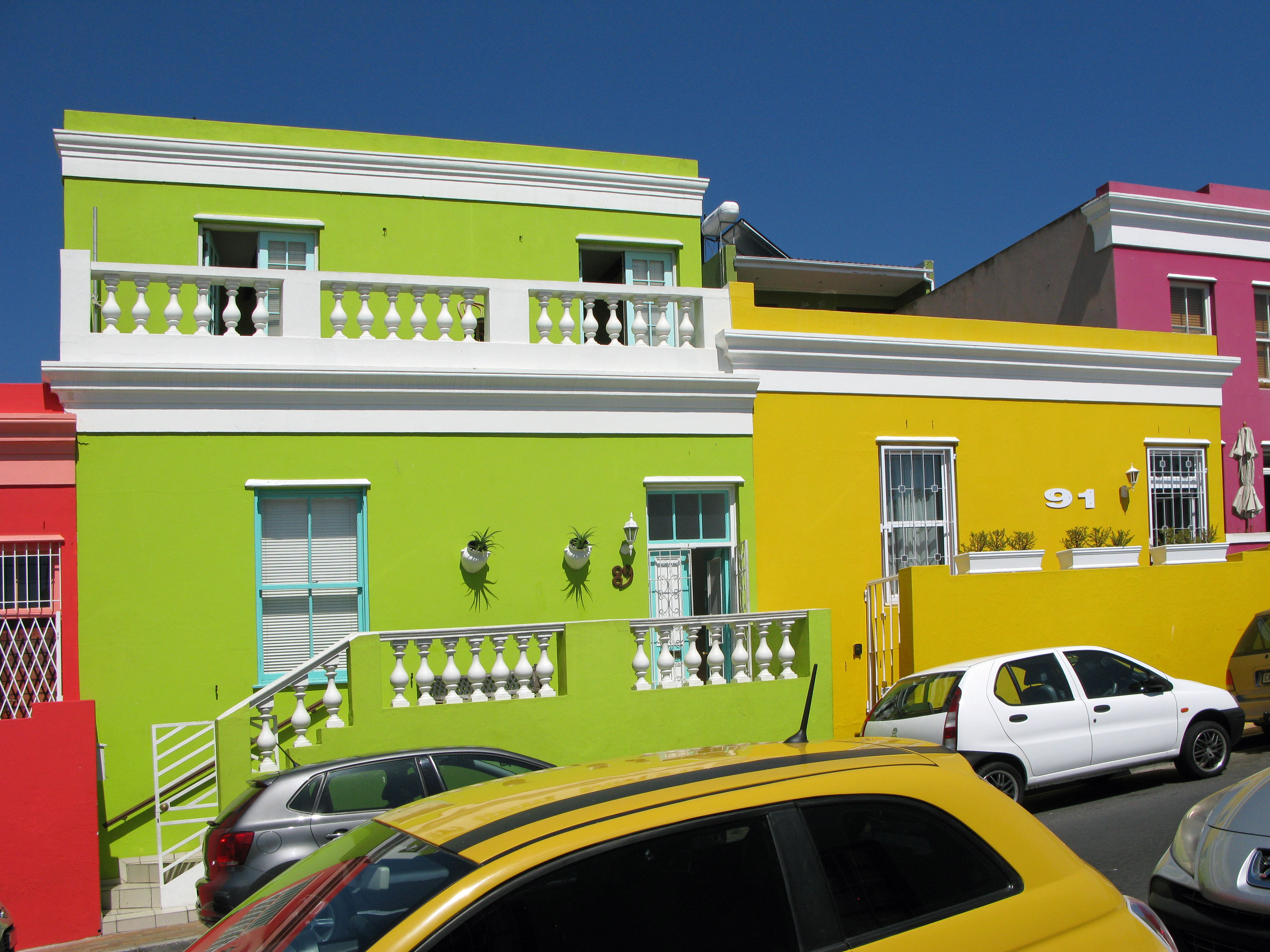 Houses on Wale Street, in the Bo-Kaap district of Cape Town